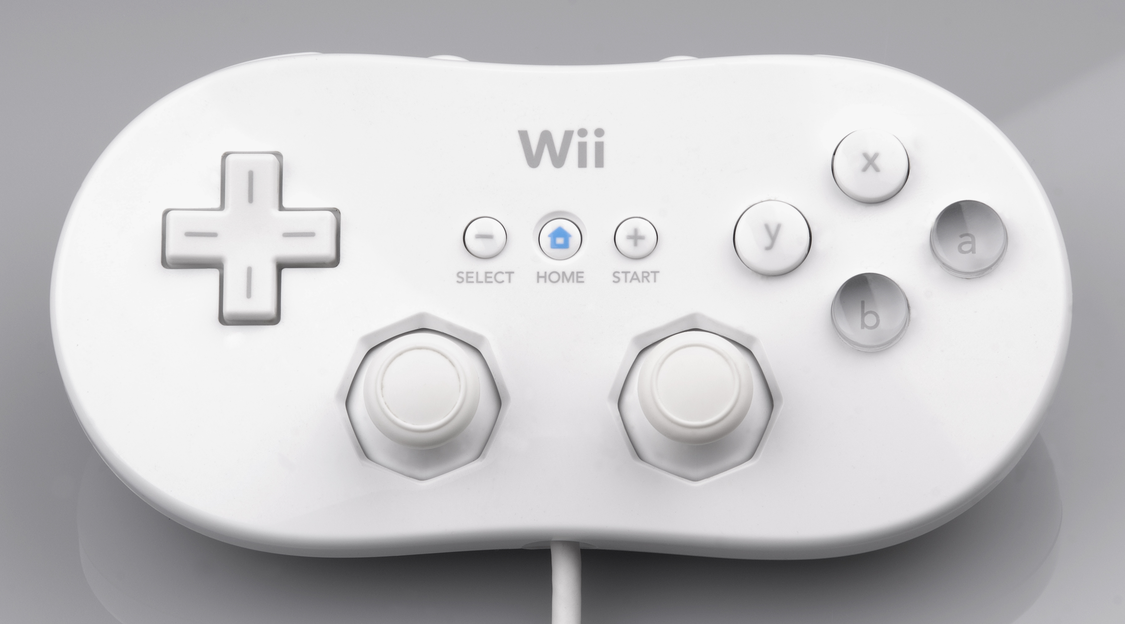 The original Wii Classic Controller in white.